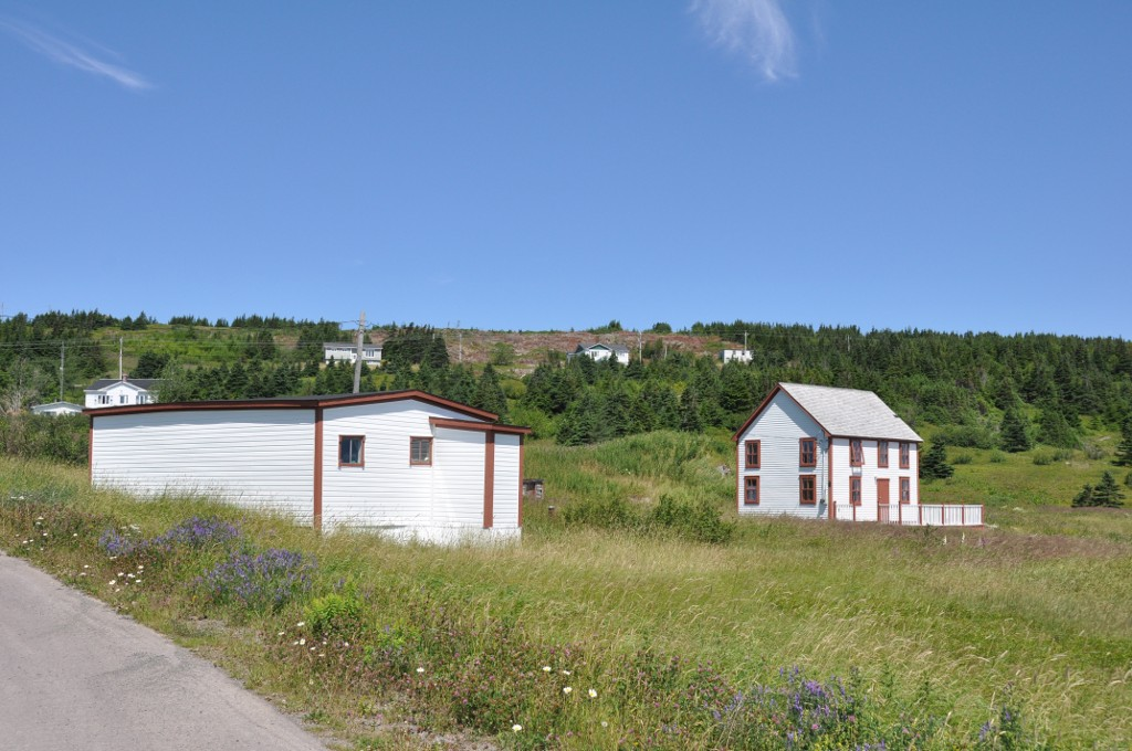 Shano/Le Shane Property Registered Heritage Structure, Lower Island Cove, Newfoundland.